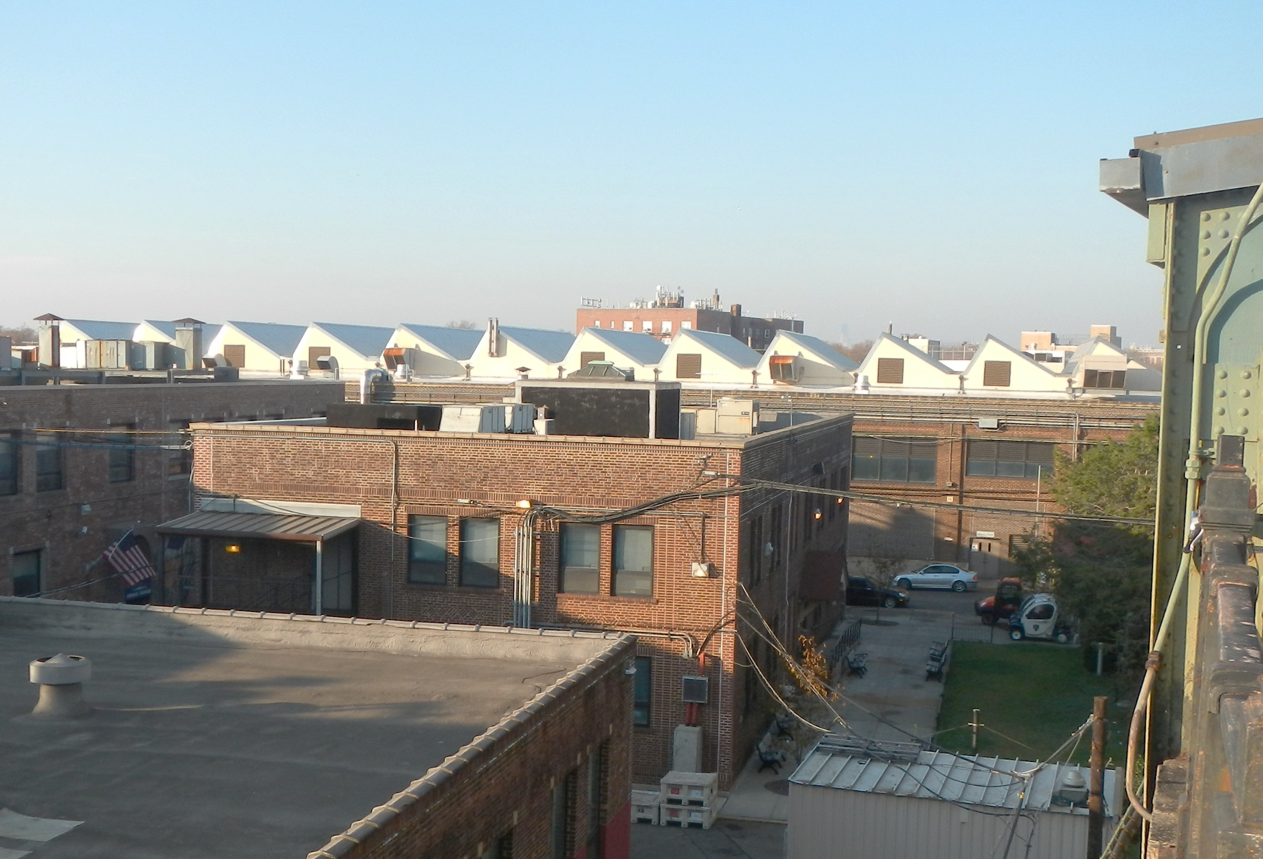 Looking north at Motor Shop on a sunny afternoon.